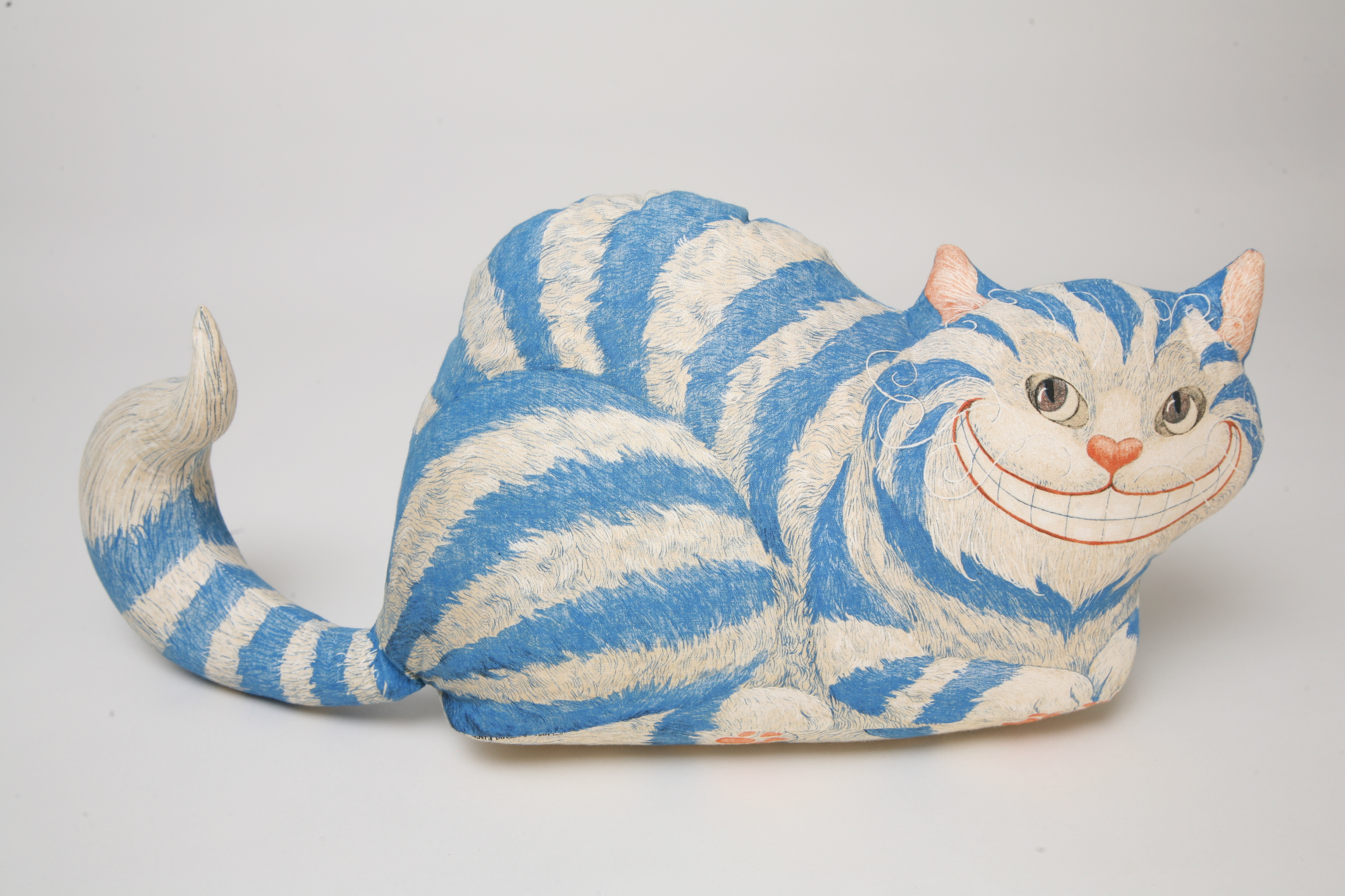 A stuffed toy Cheshire cat in the permanent collection of The Children’s Museum of Indianapolis.